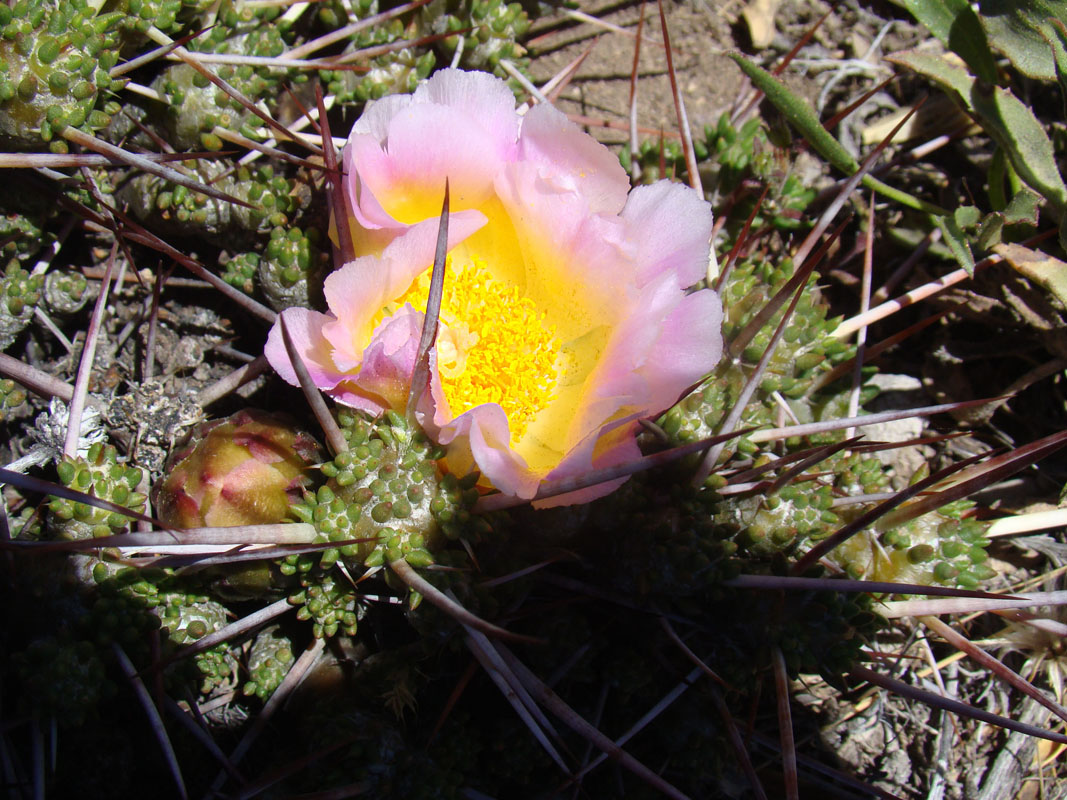 A pink-colored variant of this species from Rio Negro Province, Argentina. In context at